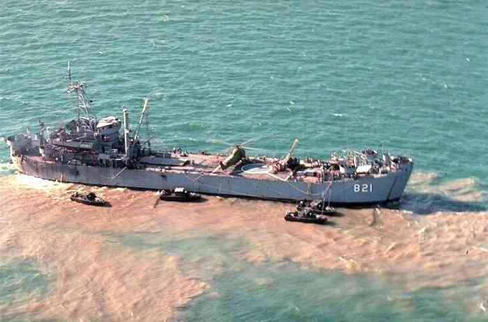 USS Harnett County (AGP-821) in South Vietnamese waters, circa 1967-1970. Official US Navy photo taken from